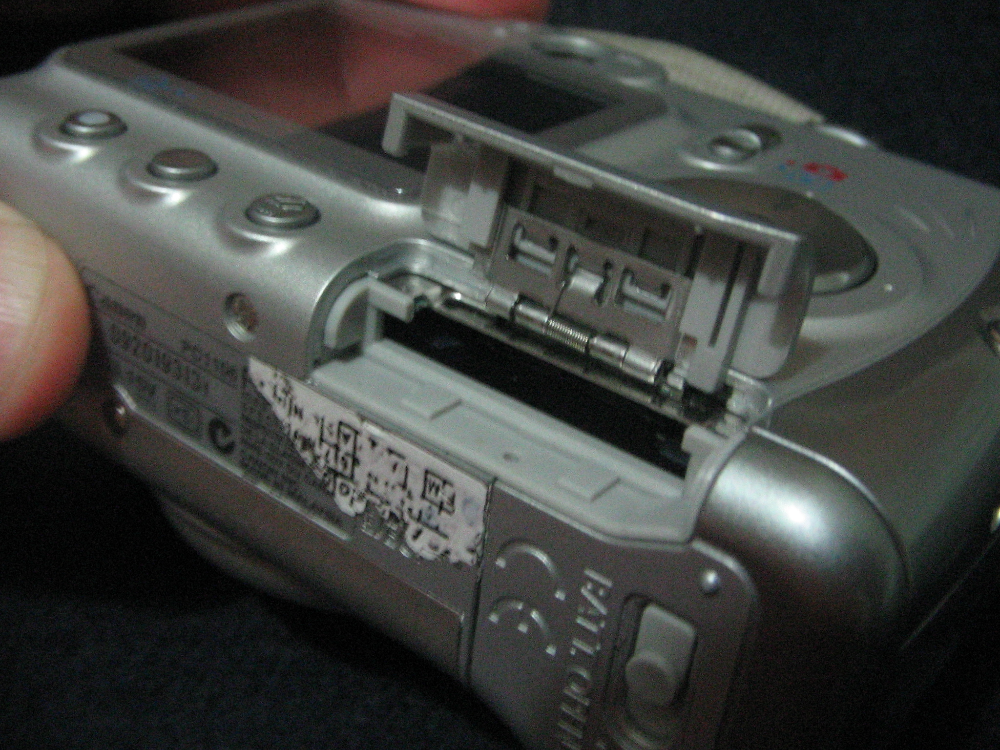 Canon PowerShot A520 digital camera, showing SD card slot entry